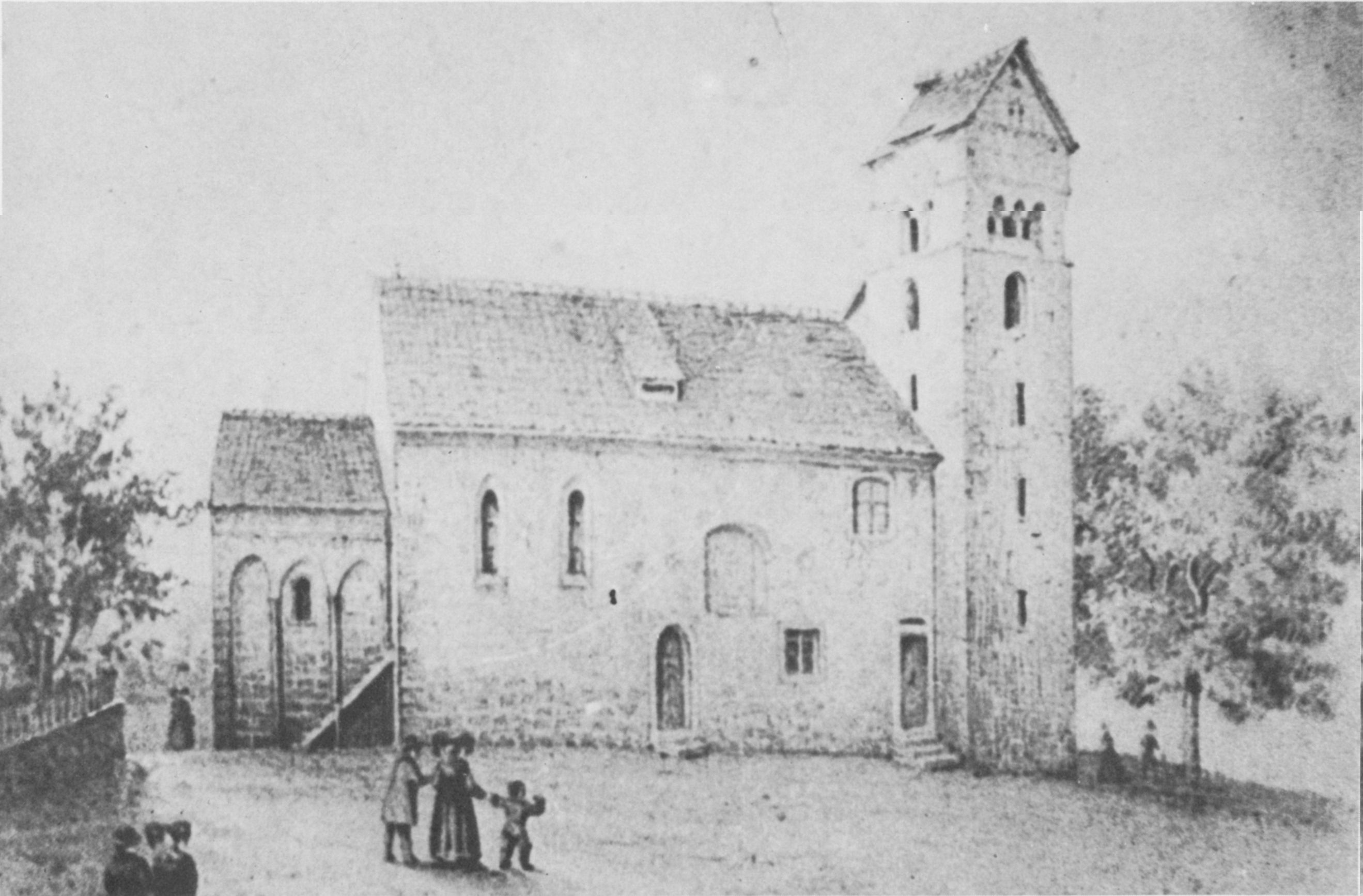 Old church in Ihringen, Germany, replaced by a new building in 1877. Author of drawing unknown